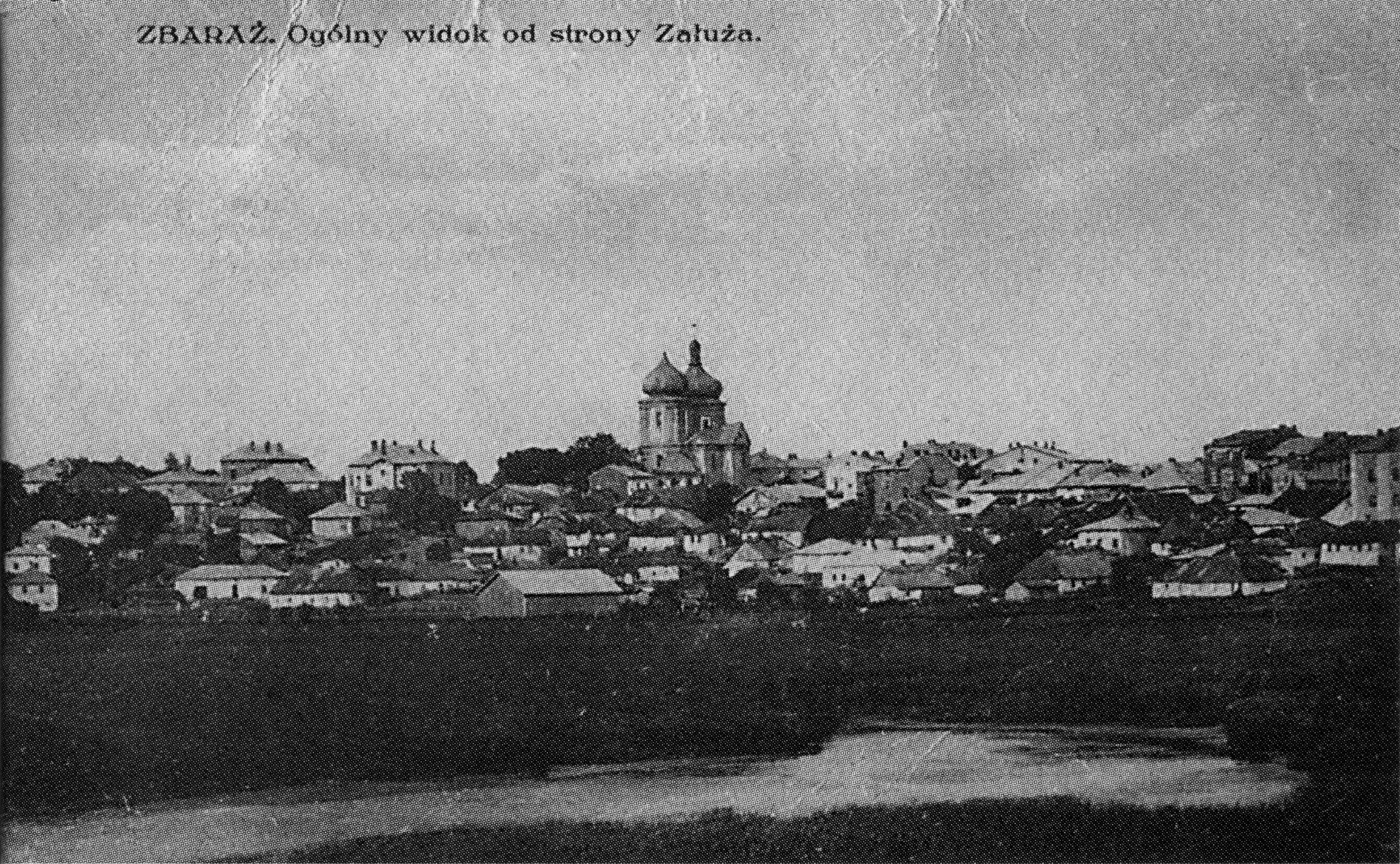 Postcard of Zbaraż: Ogólny widok od strony Załuża.